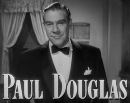 Cropped screenshot of Paul Douglas from the trailer for the film A Letter to Three Wives